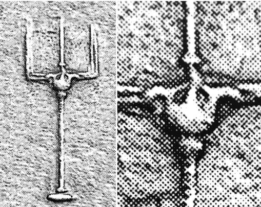 Demetrios I trident detail of Gorgon-trident coin, 180 BCE